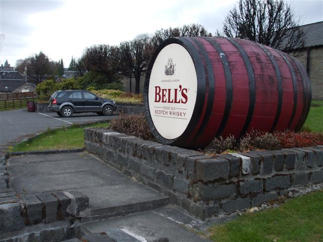 Bell's Scotch Whisky Pictured at the distillery at Pitlochry